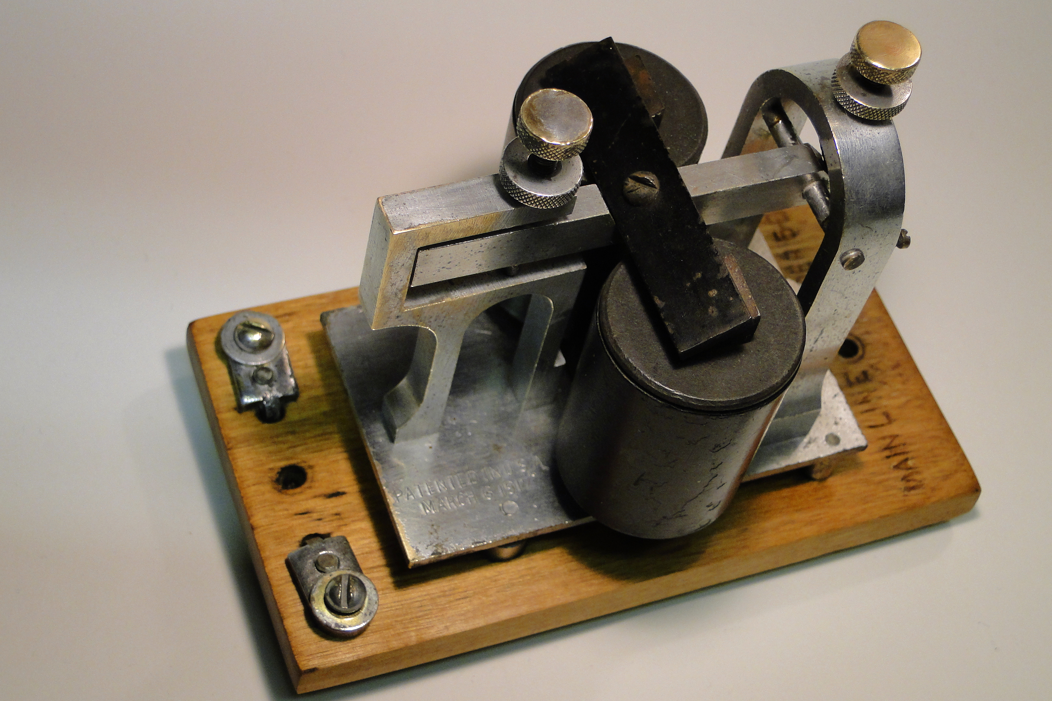 120 Ohm mainline sounder manufactured by J H Bunnell & Company